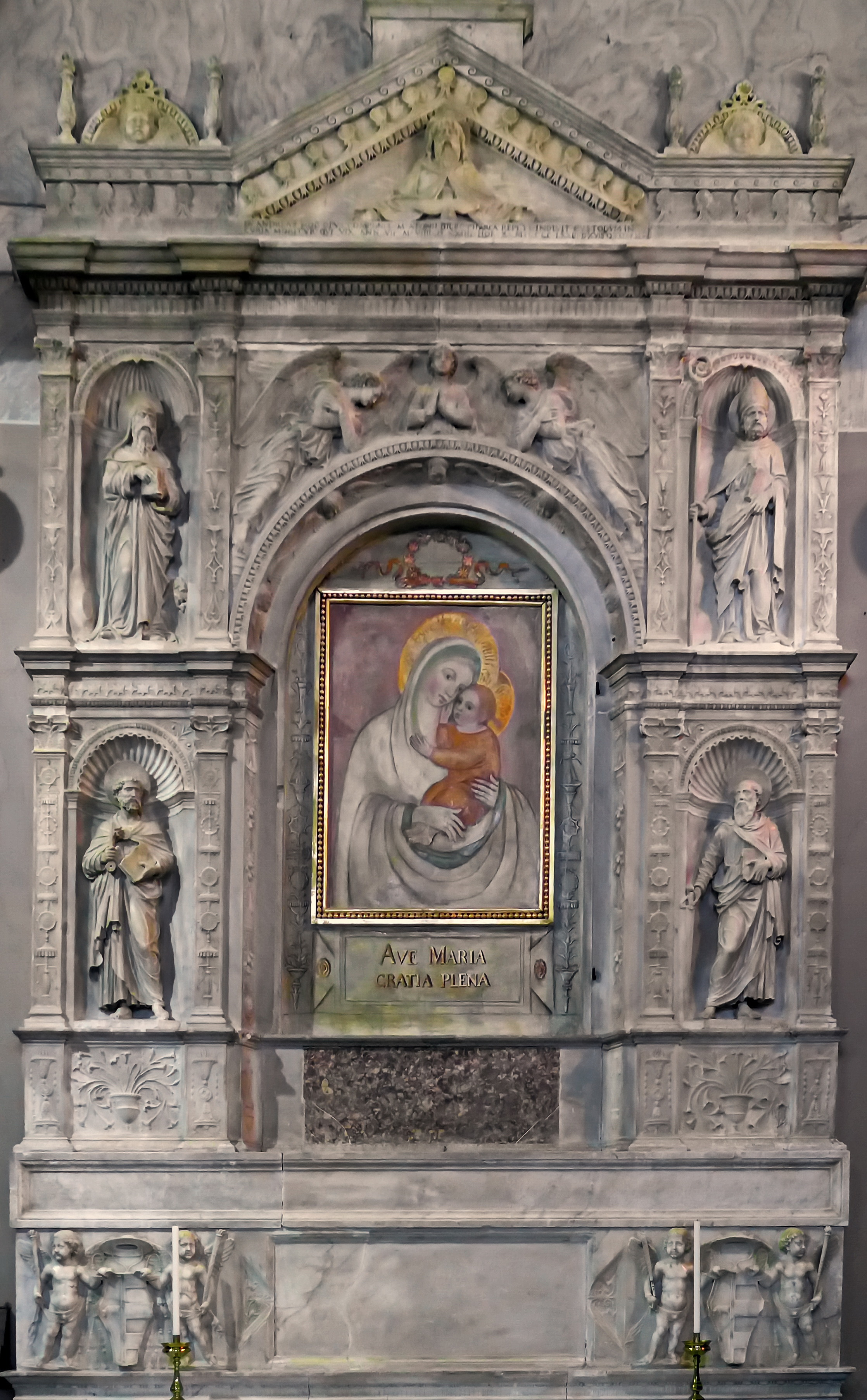 Altar-Piece; Santa Maria del Popolo (Sacristy), Rome - Part of the original high altar